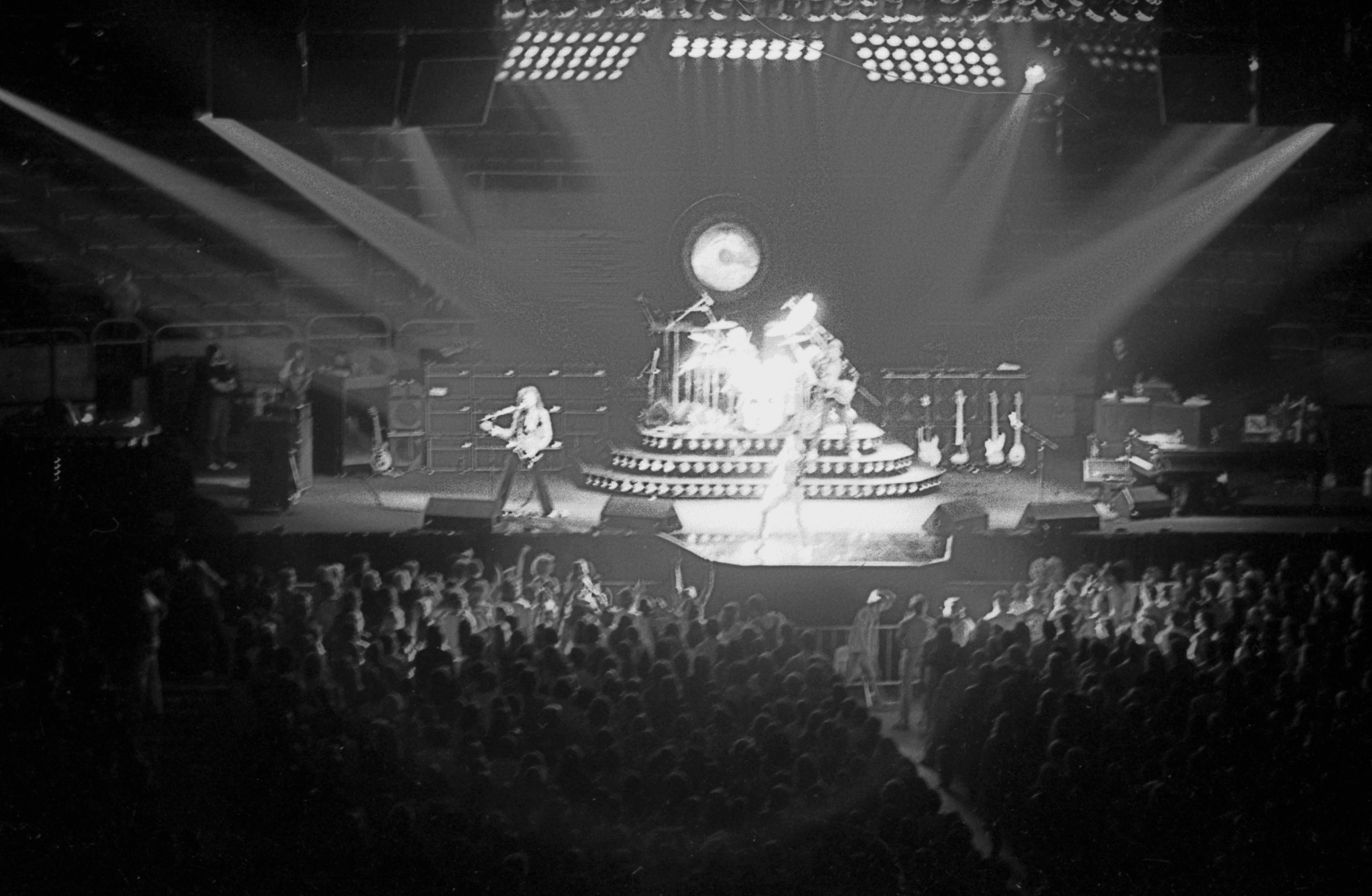 The Rock group Queen, performing at the Oakland Arena in 1980